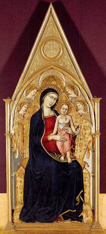 Virgin and Child enthroned.Luca di Tomme.